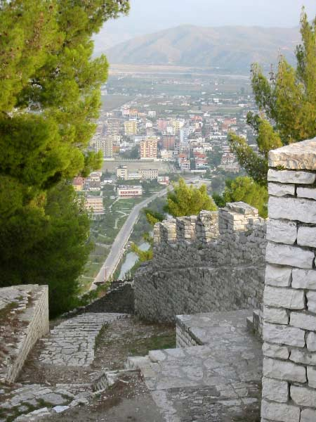 Walls of the castle of the Albanian city of Berat, in the background some streets and parks along the Osumi River in the new part of the city